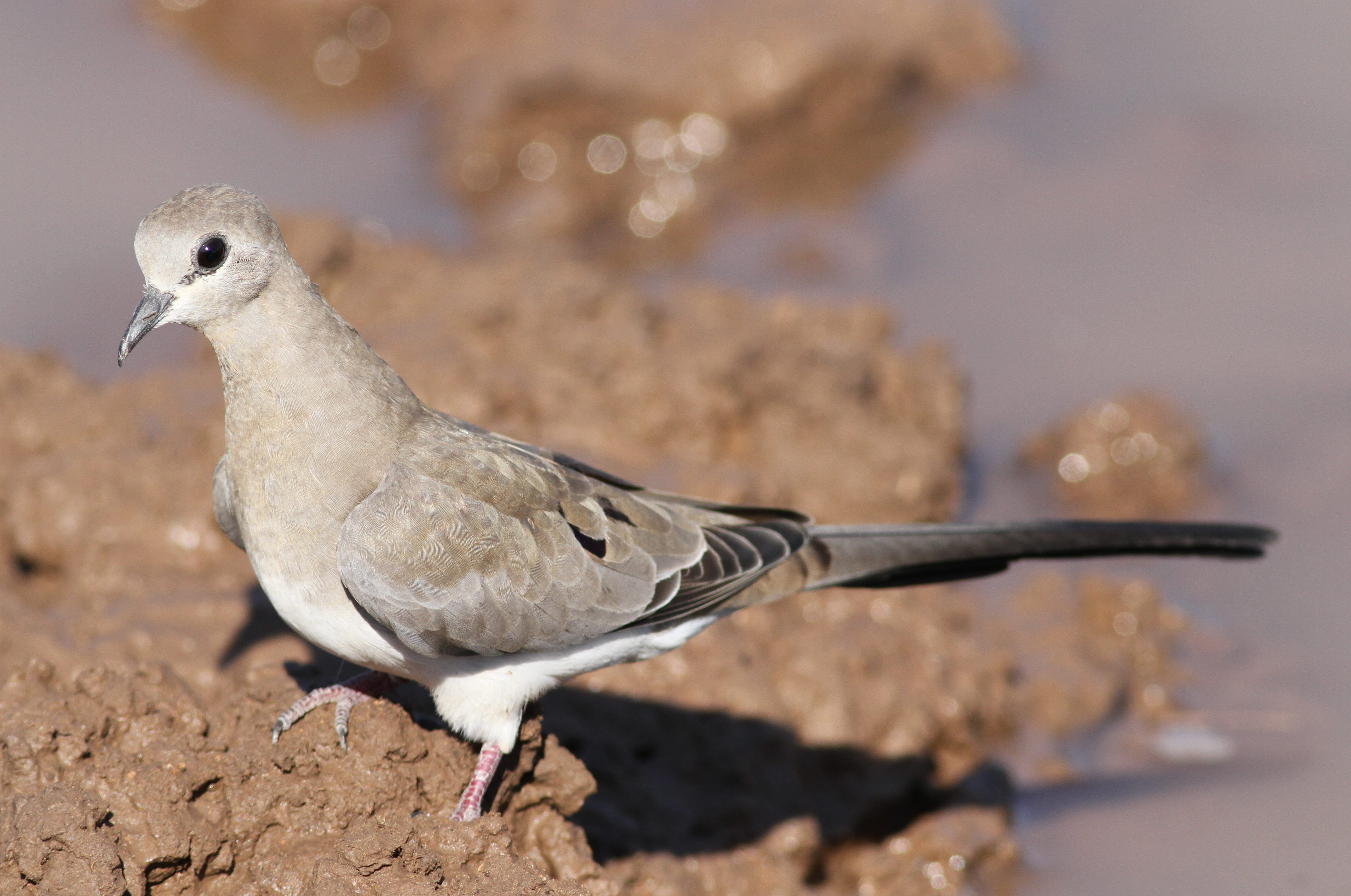 Namaqua dove, Oena capensis, at Mapungubwe National Park, Limpopo, South Africa